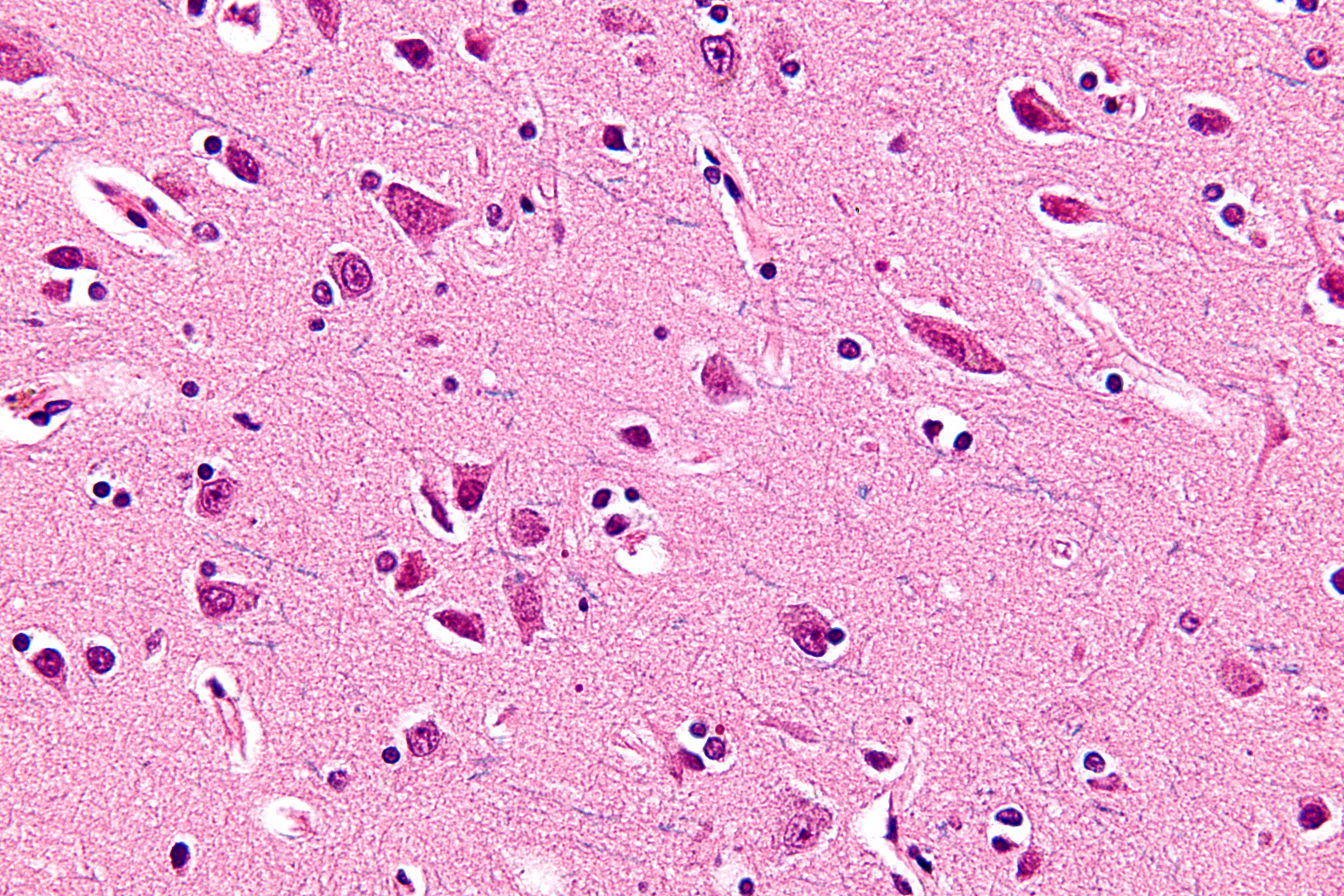 Very high magnification micrograph of the spindle neurons of the cingulate, also known as von Economo neurons. LFB-HE stain. Related images Intermed. mag. High mag. Very high mag. Very high mag.